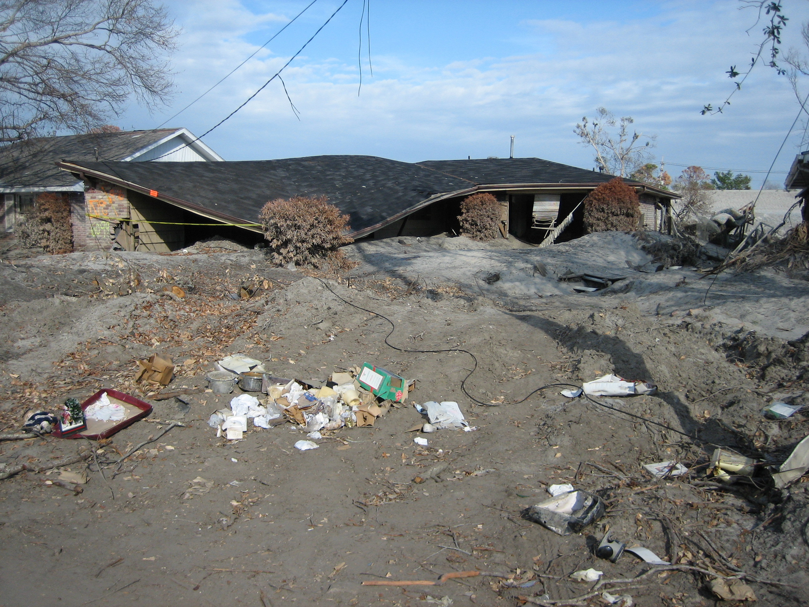 New Orleans after Hurricane Katrina: Formerly flooded buildings with flood silt near the upper breach of the London Avenue Canal levee